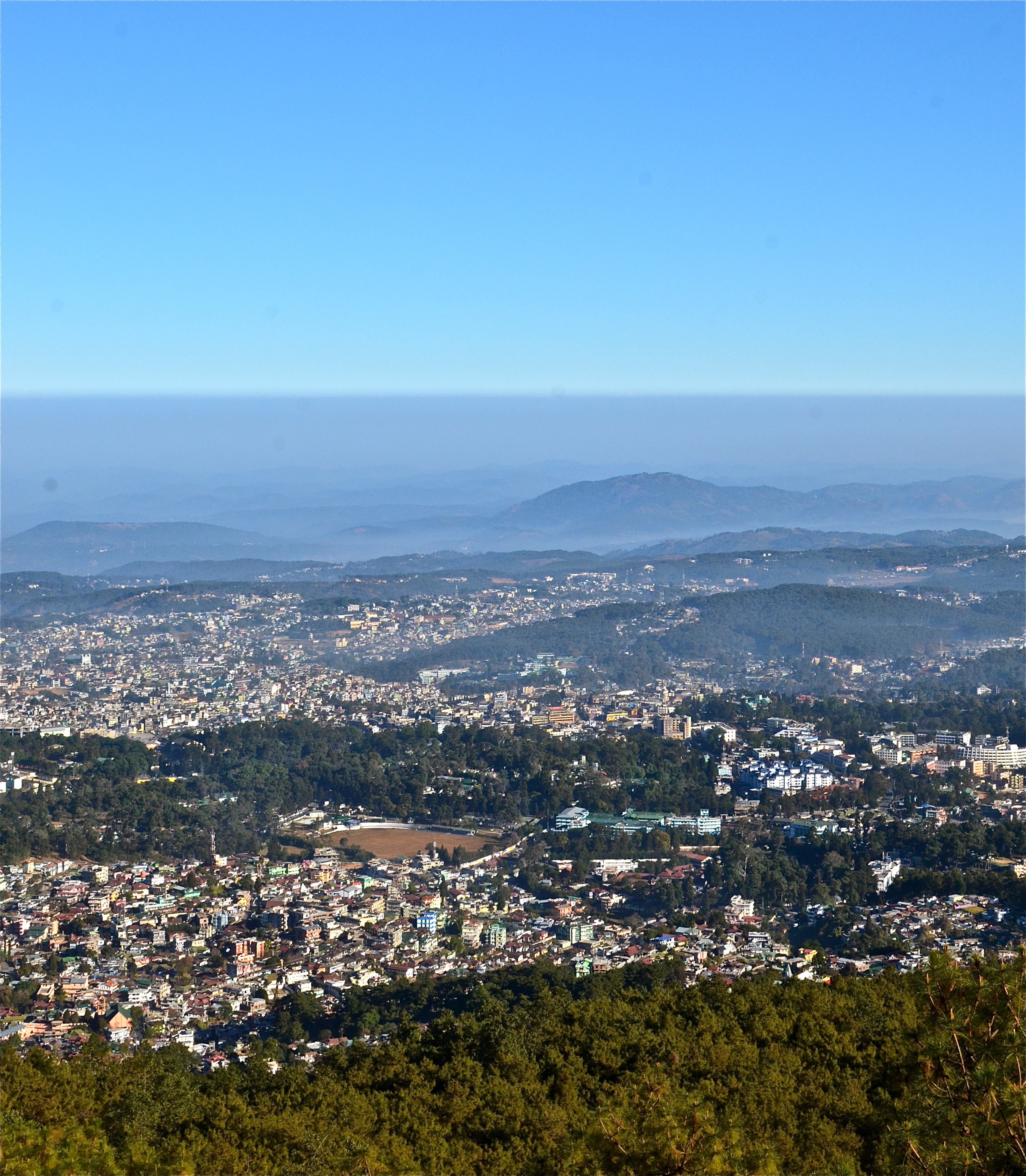 Shillong mountains city aerial view